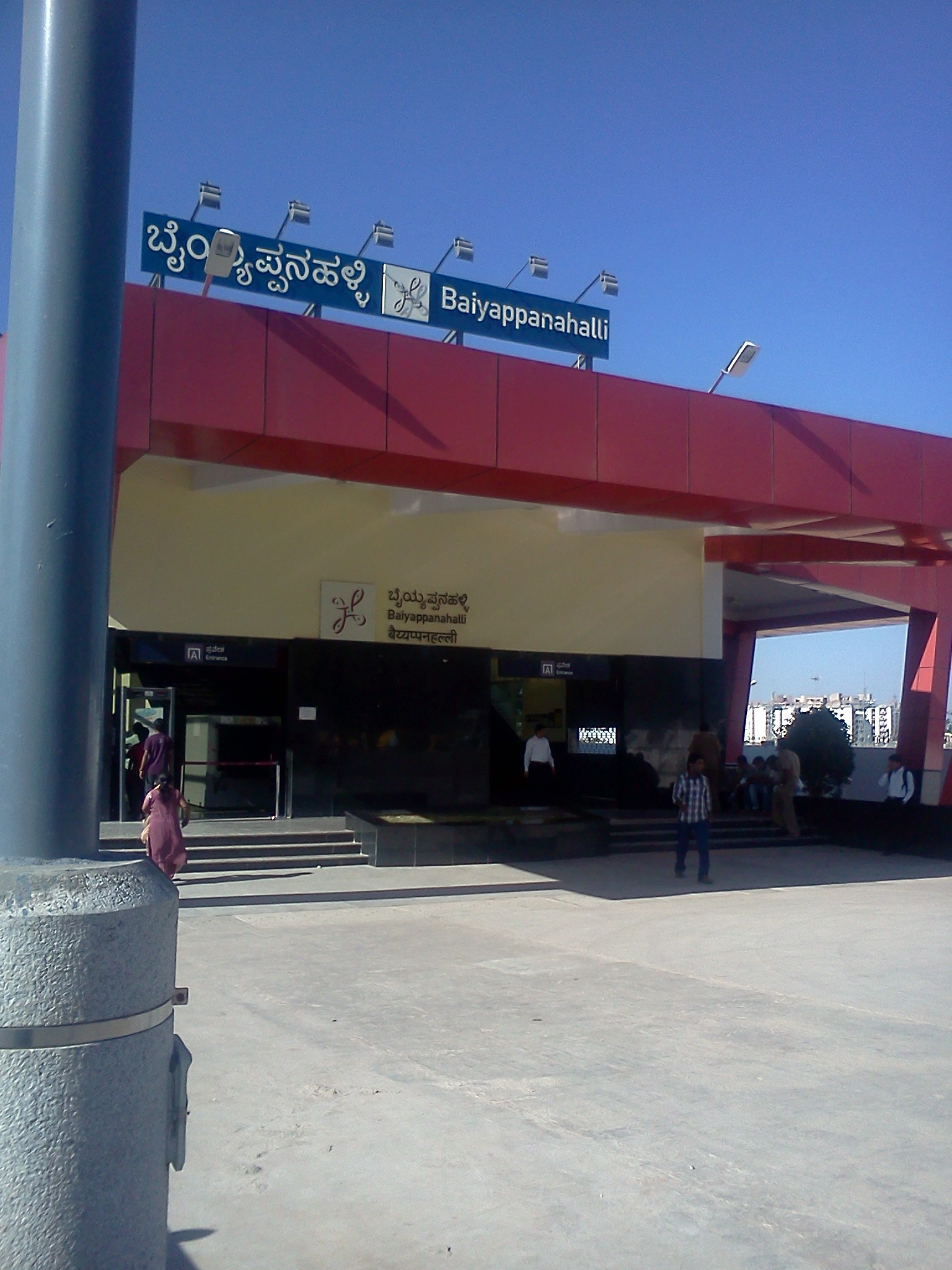 Baiyyappanahalli Metro station entrance, Bangalore